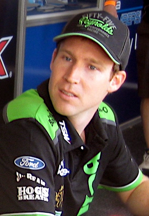 David Reynolds at the 2015 Clipsal 500 Adelaide